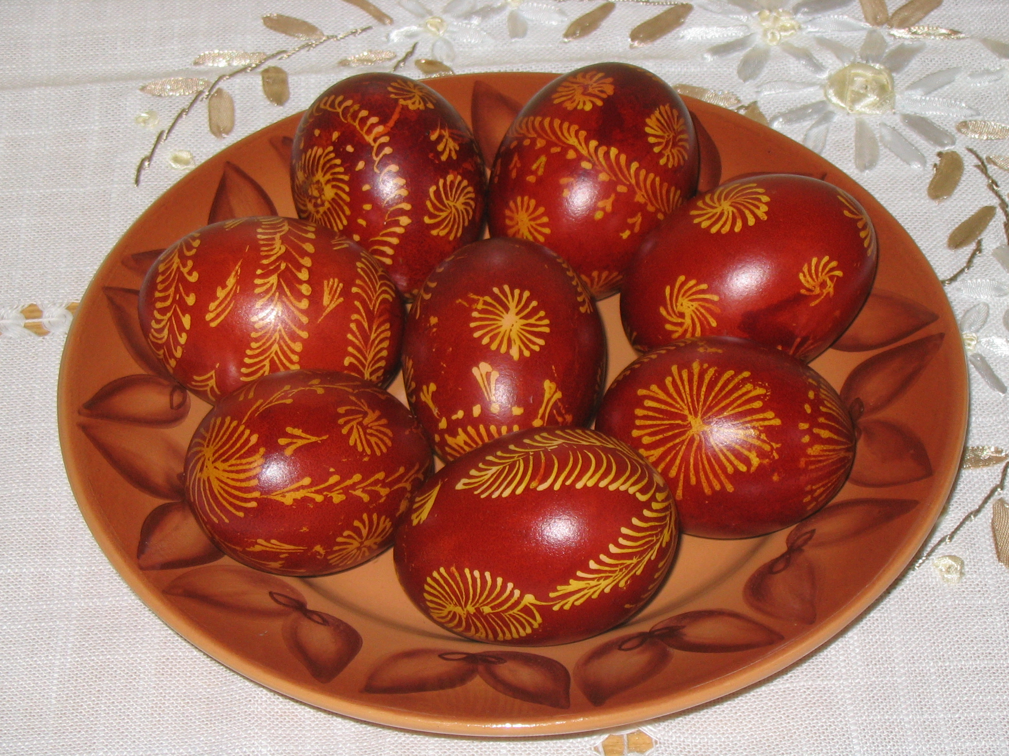 Belarusian Easter Eggs